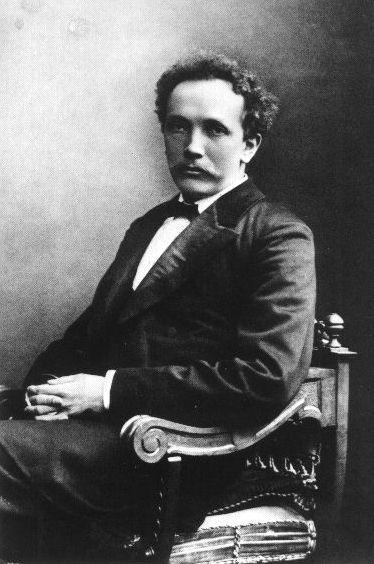 I believe this image to be in the Public Domain. The author of the website this picture is from states, "In keeping with the current nature of disclaimers: I believe all the images shown below to be in the public domain." In addition, I believe this work to be a work first published outside the US before July 1st, 1909, making it, according to my understanding, in the Public Domain. From